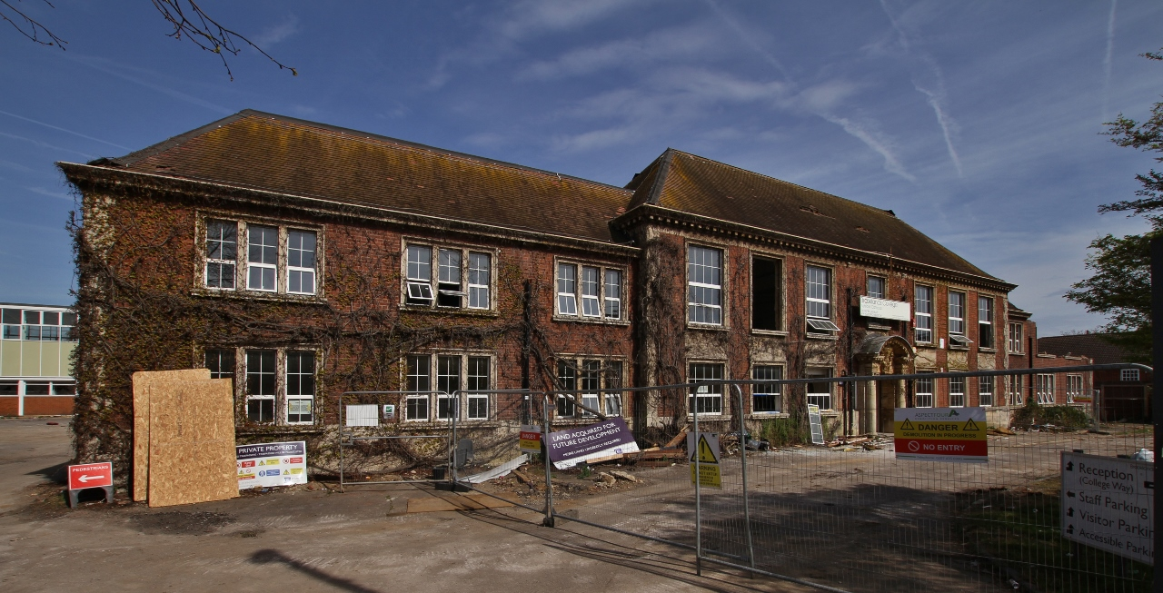 Main building of the former Ashford County Grammar School, Church Road, Ashford, Middlesex, seen from the southwest.In February 2017 Inland Homes Ltd began illegally to demolish the building without planning permission. Spelthorne Borough Council immediately ordered work to stop. Damage to the east wing of the building is visible at the far right of this view.